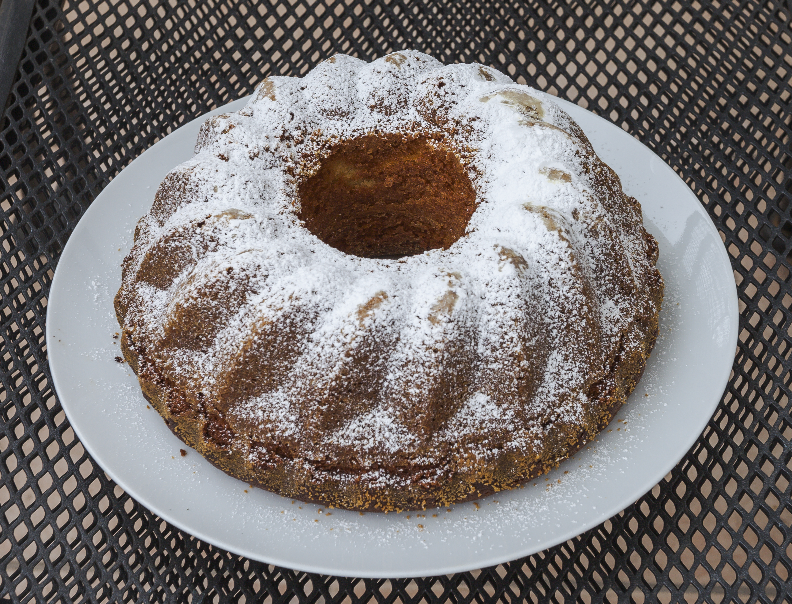 Babka, Munich, Germany